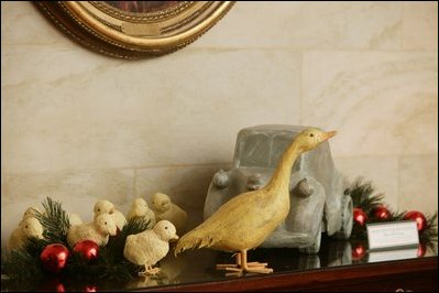 The White House 2003 Christmas decoration using the 1941 children's picture book Make Way for Ducklings as the theme.